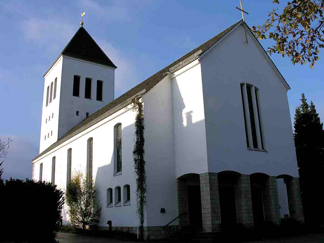 Church Christkoenig, Bielefeld (Germany)